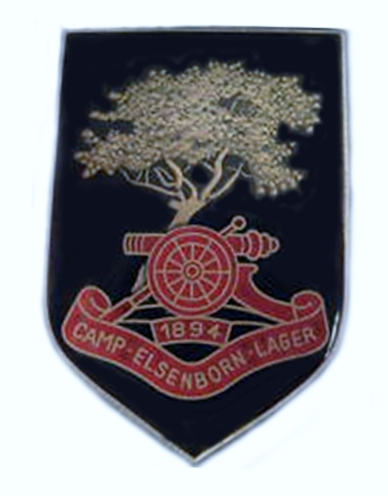 Elsenborn Training Area Command